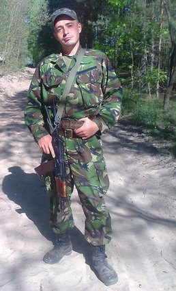 Mikola Bruy in the Army. 1st Guards Armoured Brigade. Summer 2014